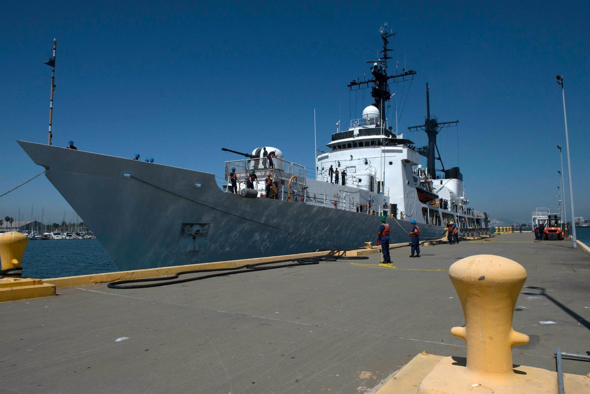 The former USCGC Boutwell